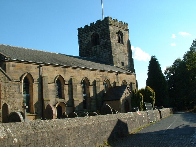 Brougton In Amounderness. Parish Church of Brougton In Amounderness